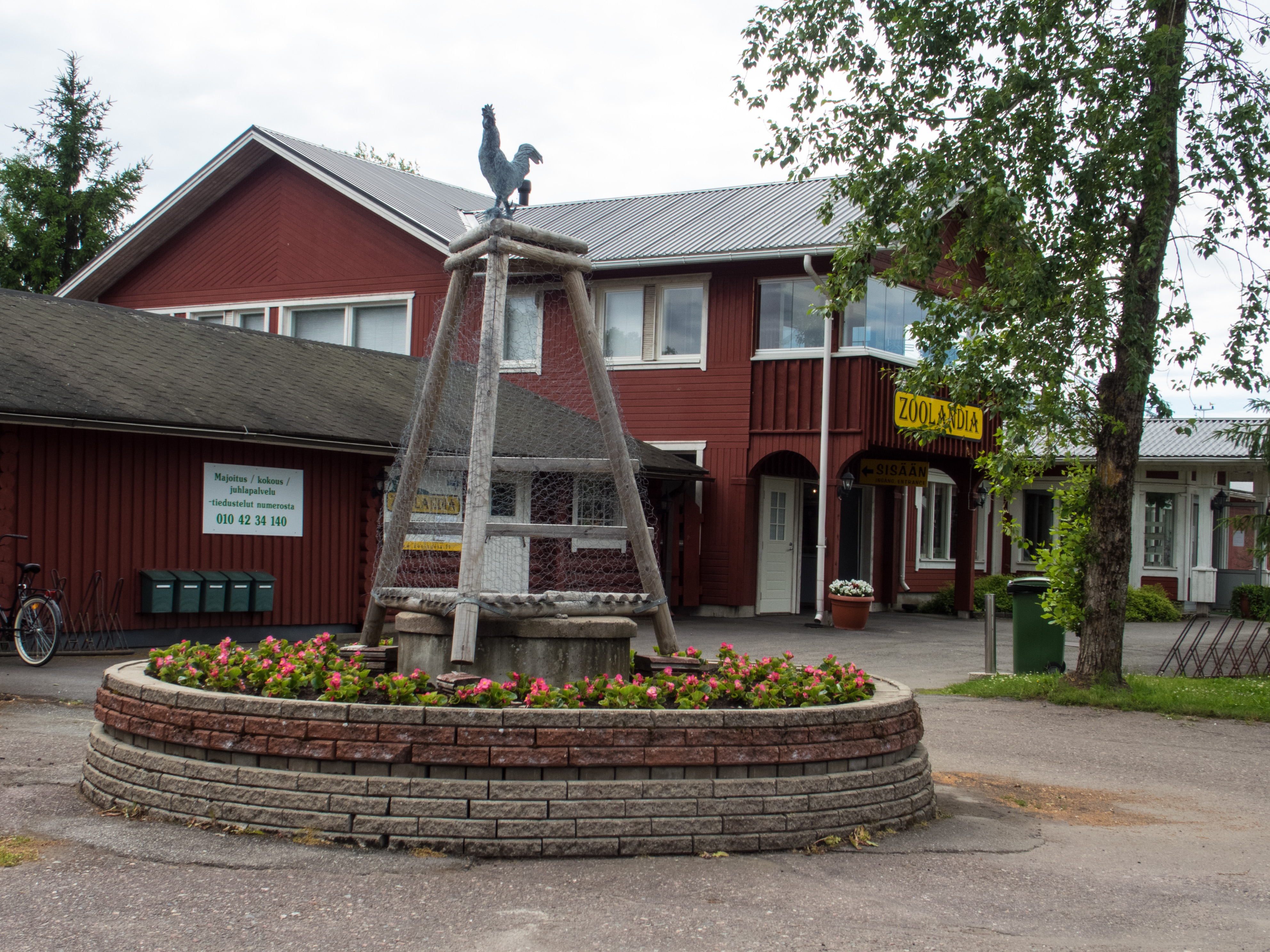 Zoolandia zoo in Lieto, Finland